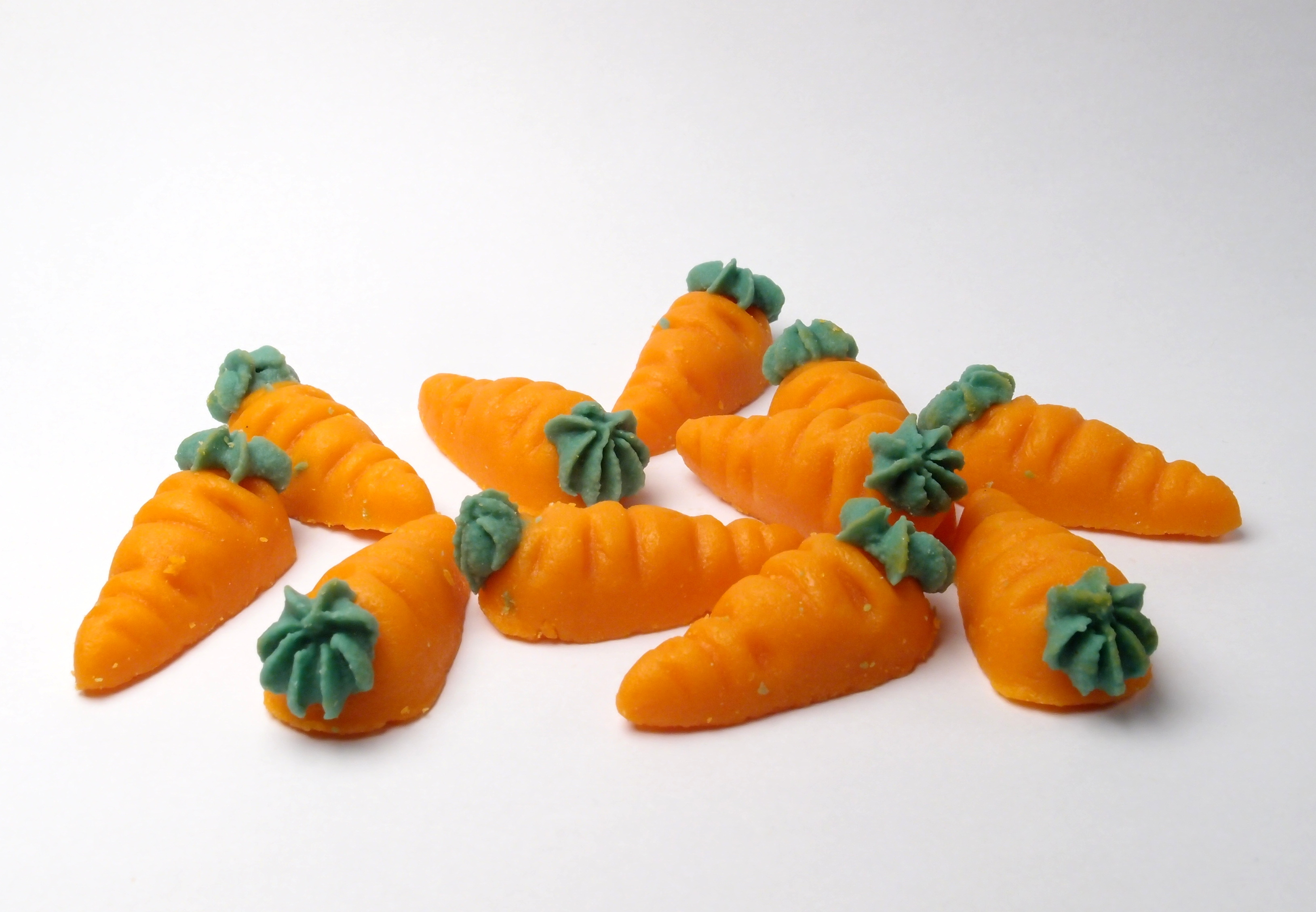 Ready-made carrots made from marzipan and sugar paste (the small green parts), for decorating carrot cakes. Length circa 3 cm.